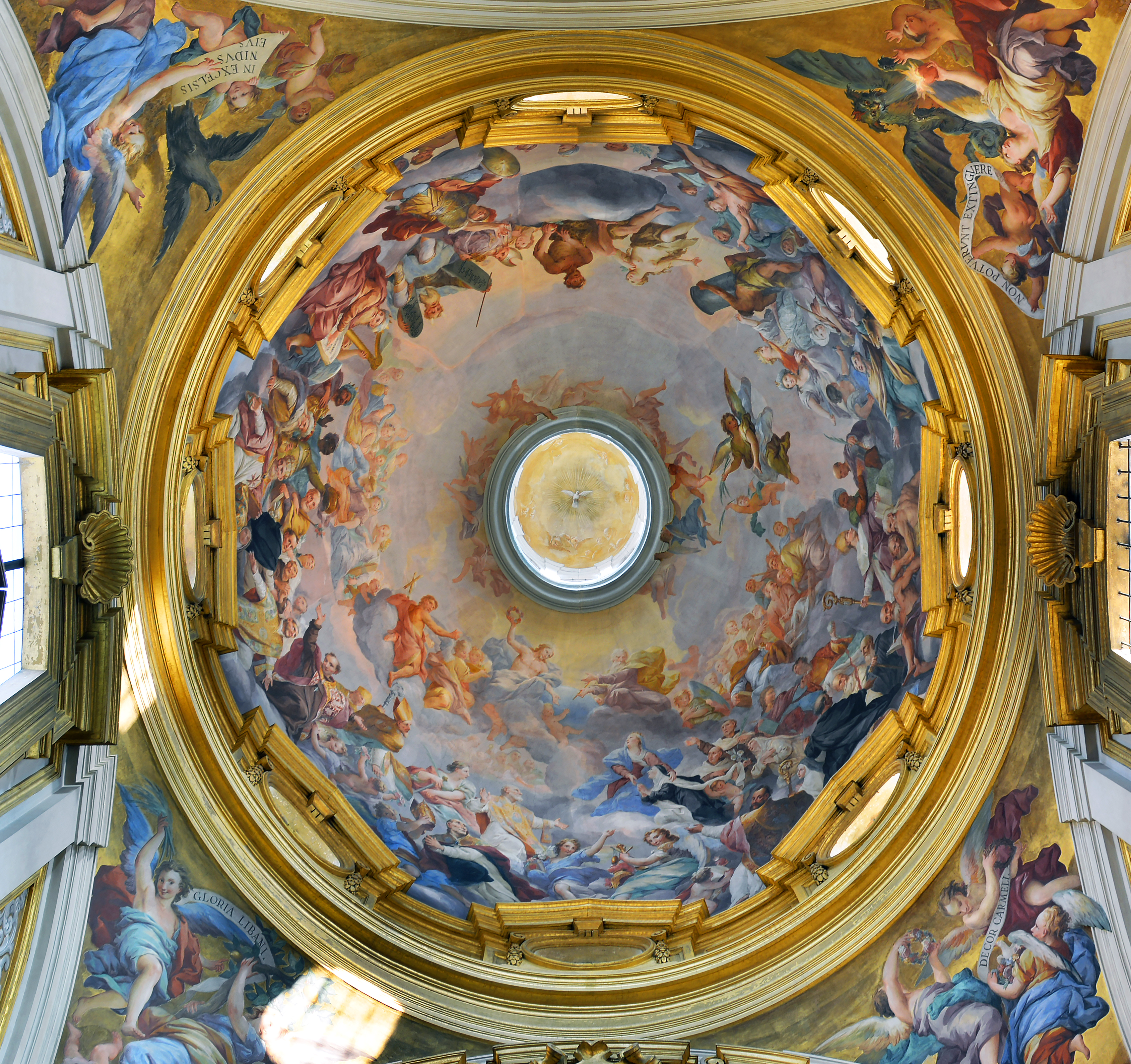 Santa Maria Maddalena de' Pazzi (Florence) - Dome of Cappella Maggiore